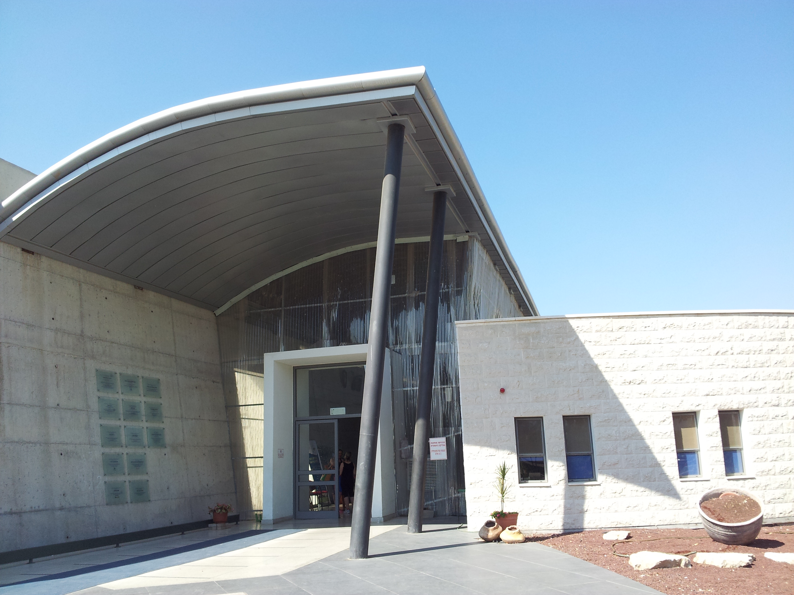 בית איל